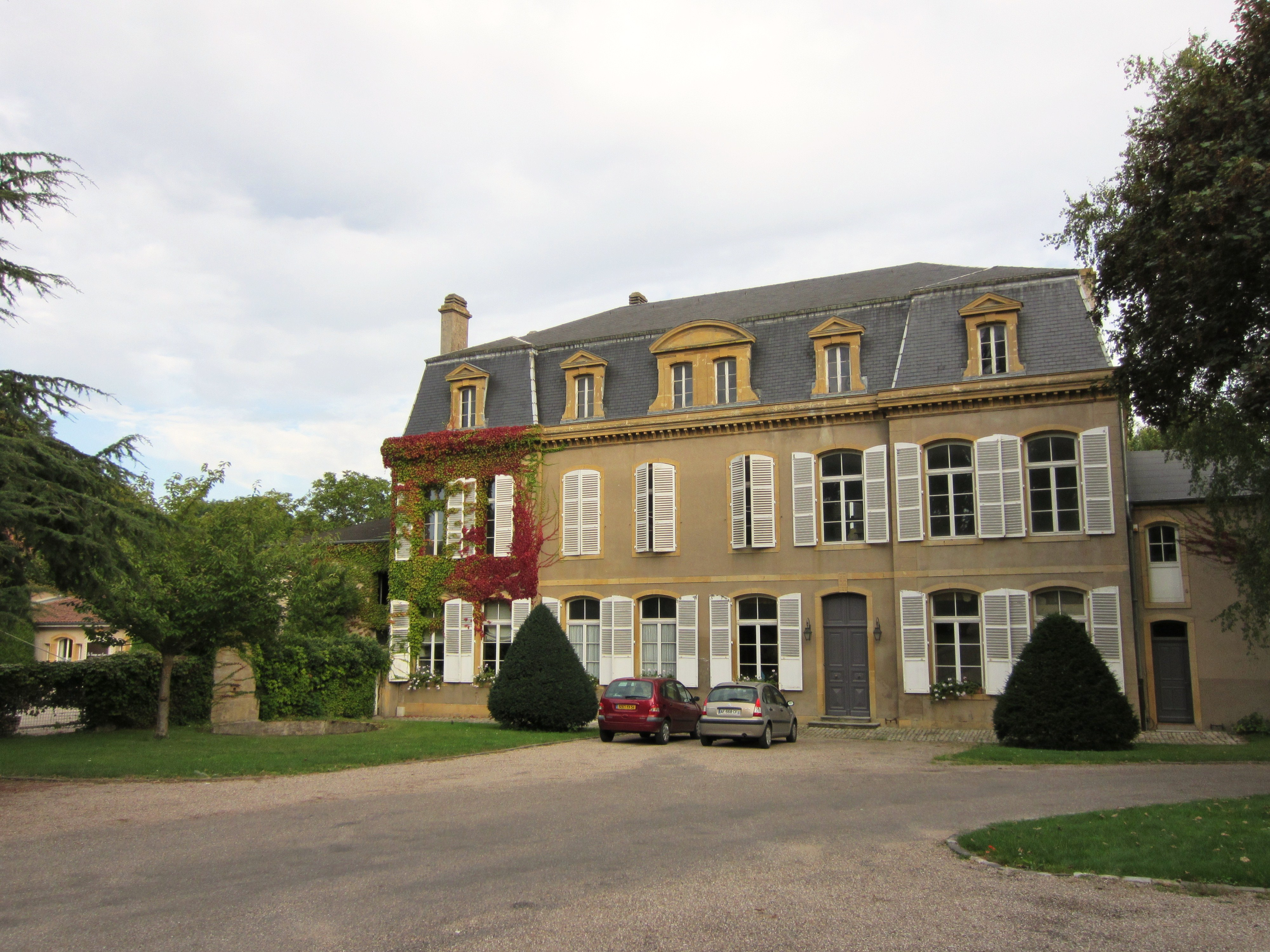 Description chateau Grange aux Ormes Marly Date7 September 2011Sourcemon appareil photoAuthorAimelaimePermission(Reusing this file) chateau Grange aux Ormes Marly